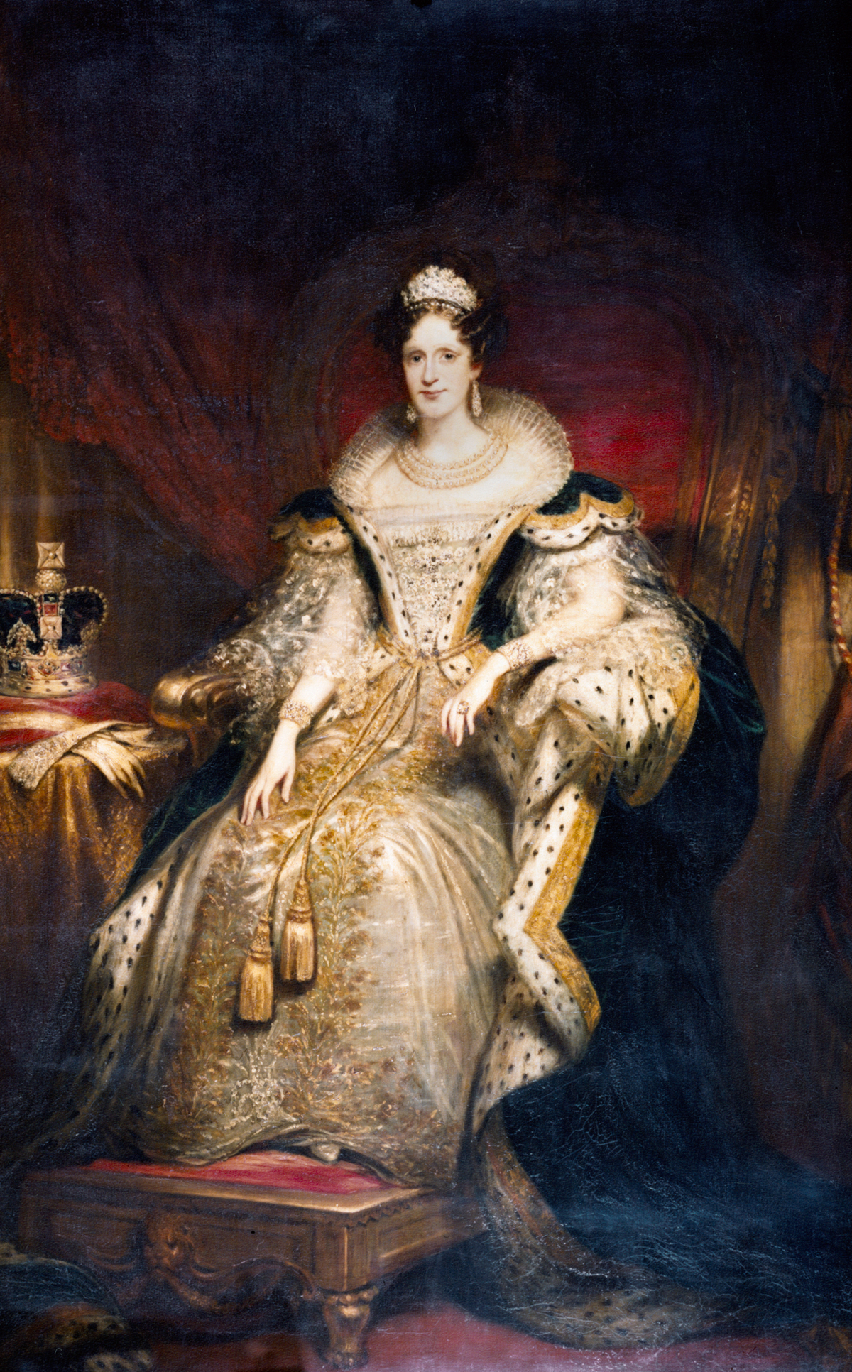 Adelaide of Saxe-Meiningen (1792-1849), queen of the United Kingdom